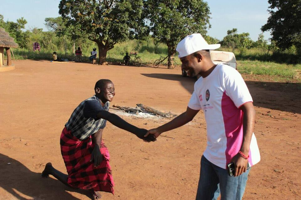 A perfect example of the famed Ugandan humility, greeting by kneeling This is an image from Uganda